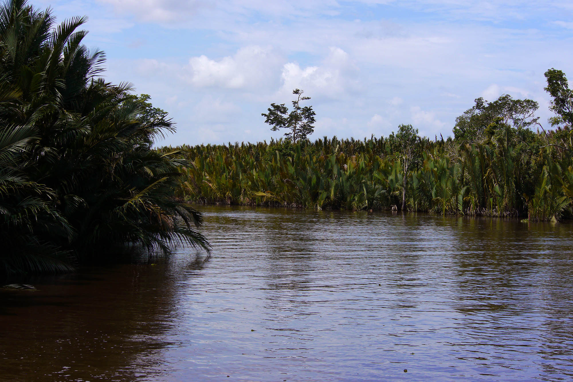 Mangrove of Nypa palm (Nypa fruticans) in Sekonyer River in Tanjung Puting National Park,Central Kalimantan, Borneo.